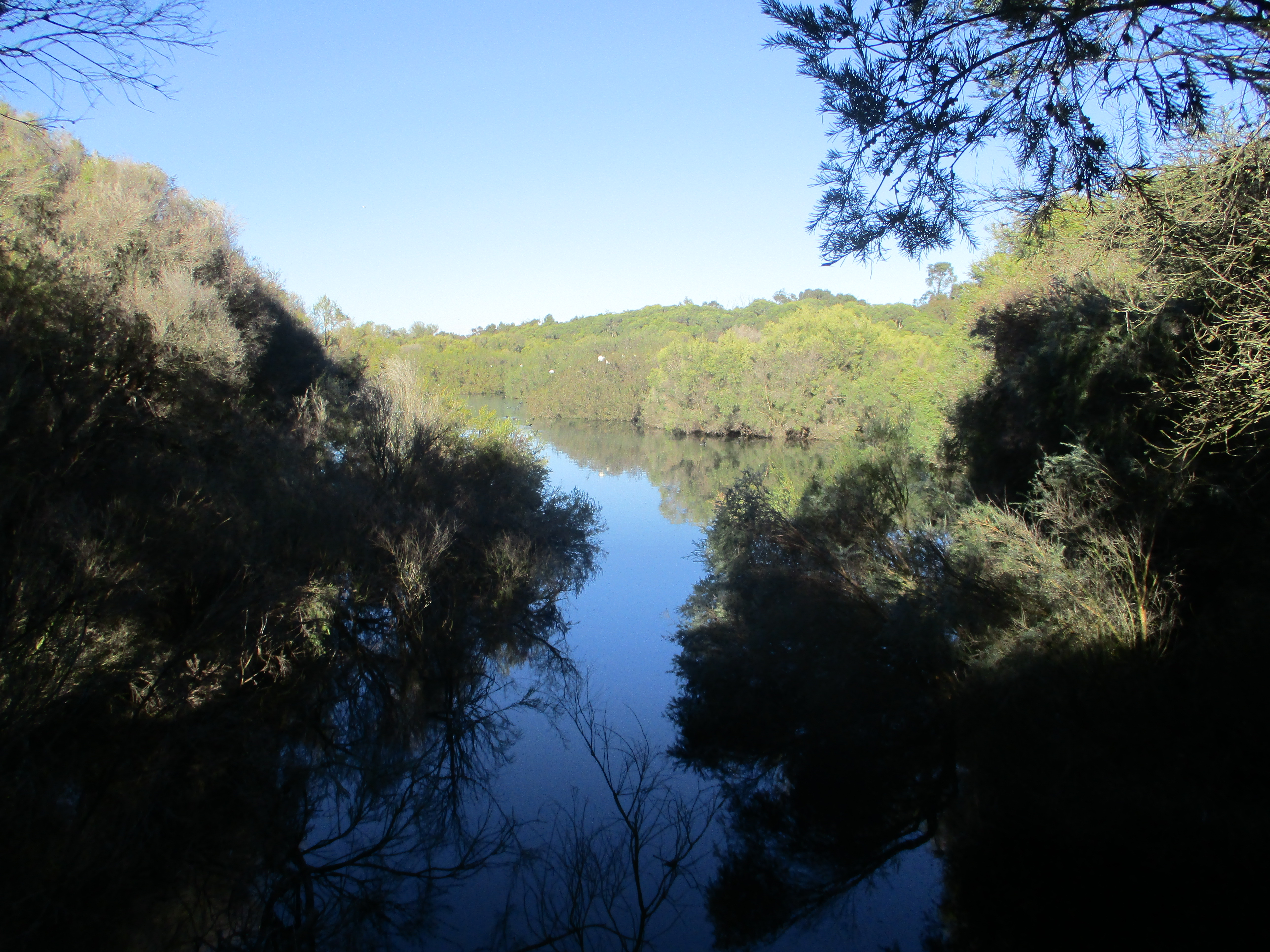 View from the Biara Lookout at the Spectacles Westlands, Western Australia.